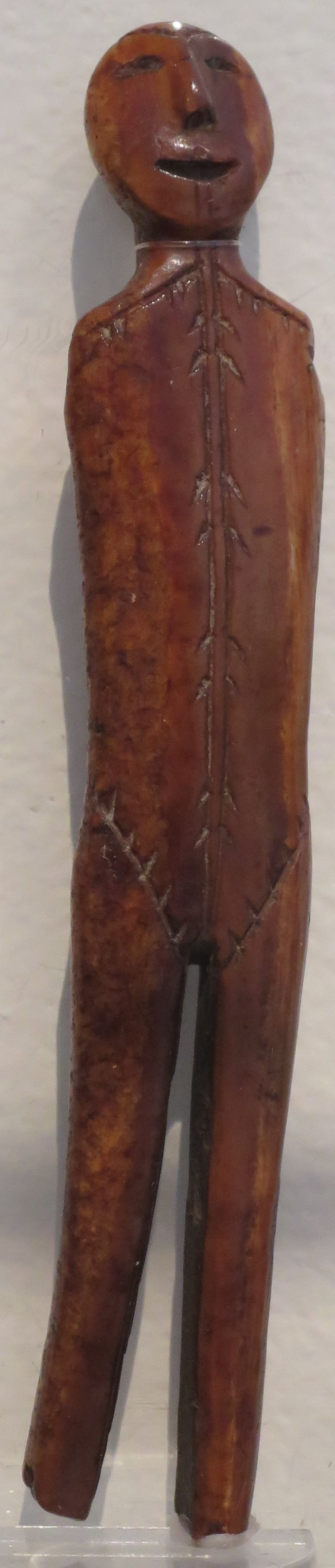 Eskimo human effigy form, Honolulu Museum of Art